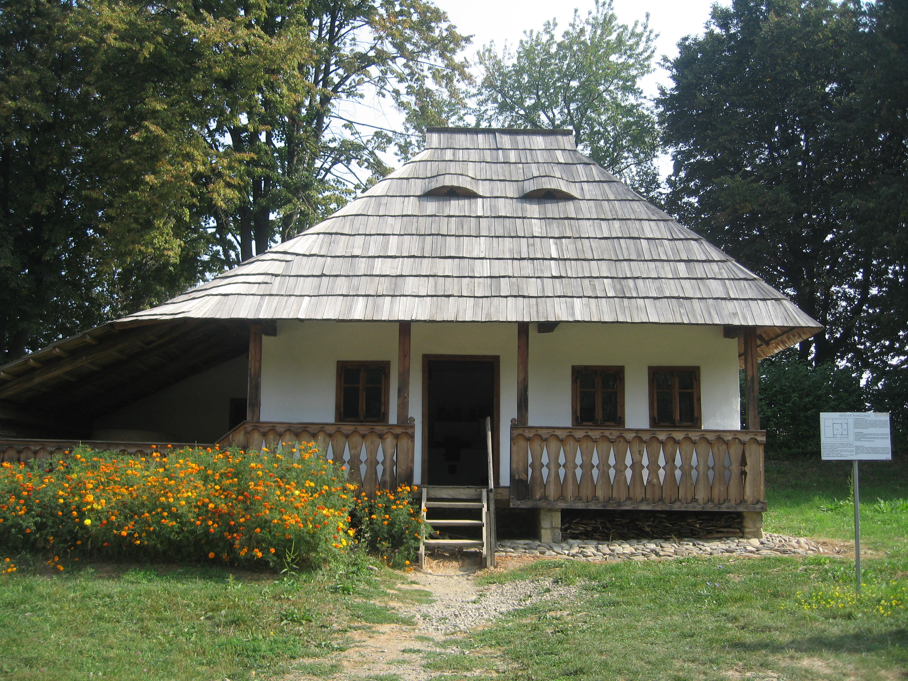 Bukovina Village Museum - The Marginea Pottery Workshop, Rădăuţi ethnographic area.